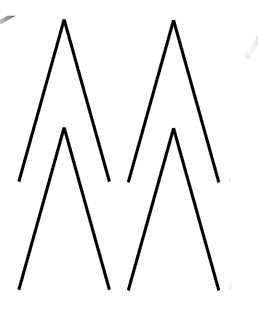 mustarinda logo